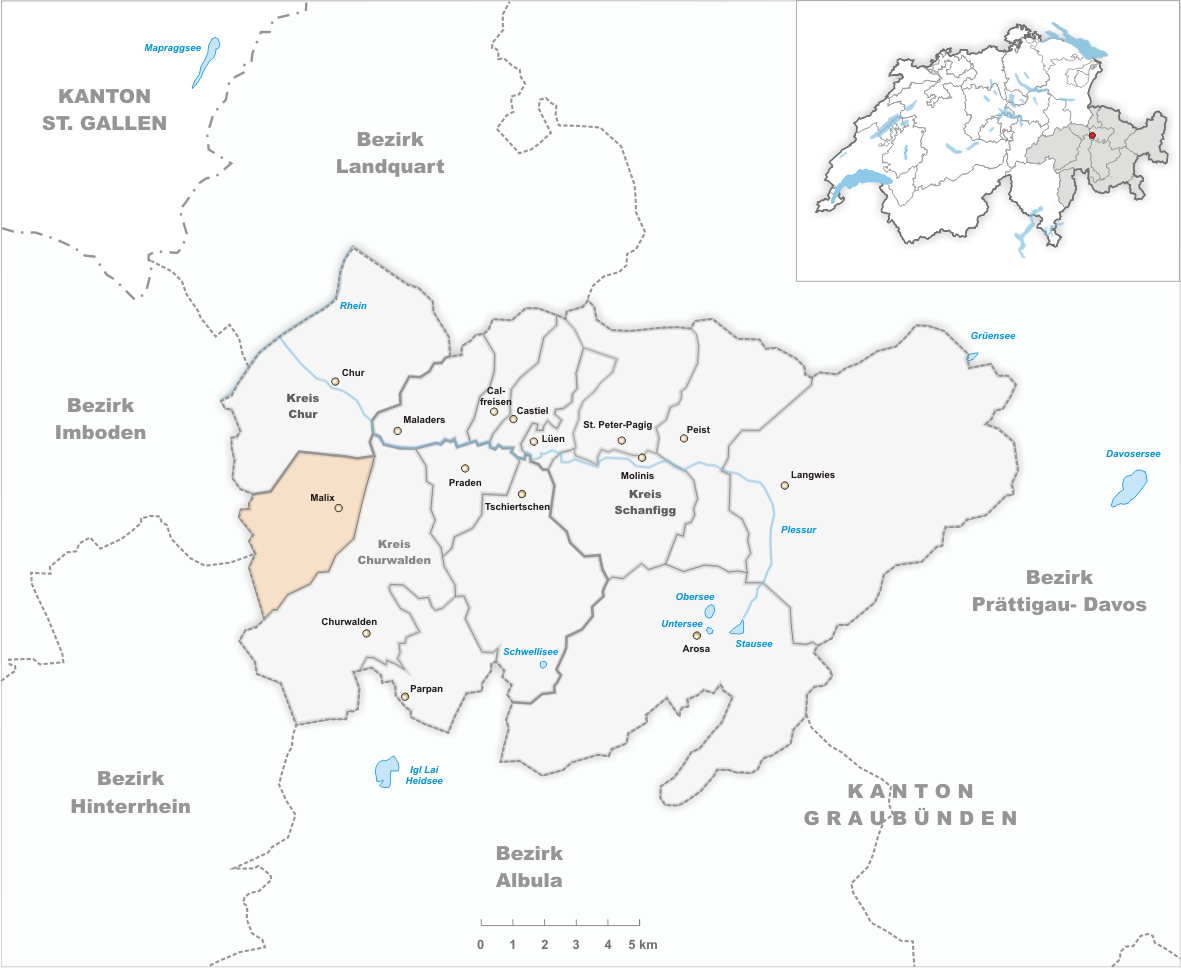 Municipality Malix